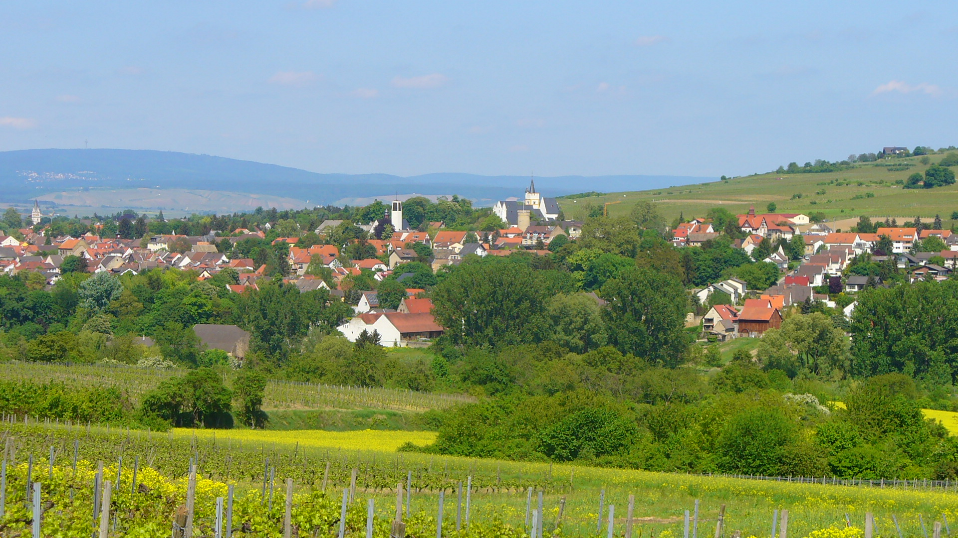 Ingelheim Spring 2009, view from the Westerberg to the Mainzer Berg